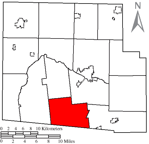 Made by the US Census and modified by myself to highlight the township